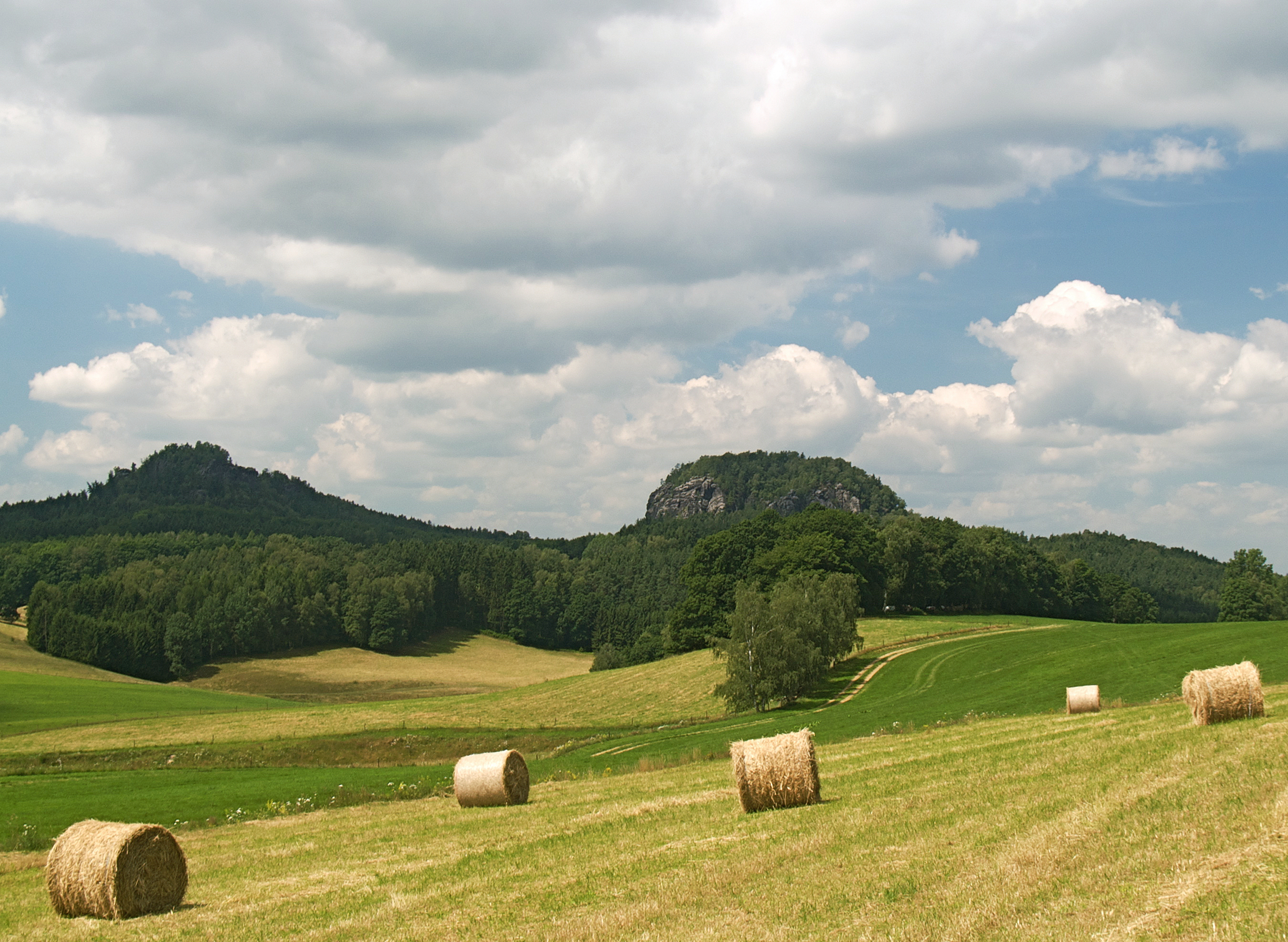 The Rocks Bärensteine in Saxon Switzerland.